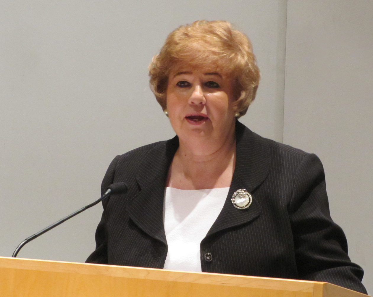 Photograph of Gail Mengel, addressing the Restoration Studies Symposium in Independence, Missouri, 15 April, 2011